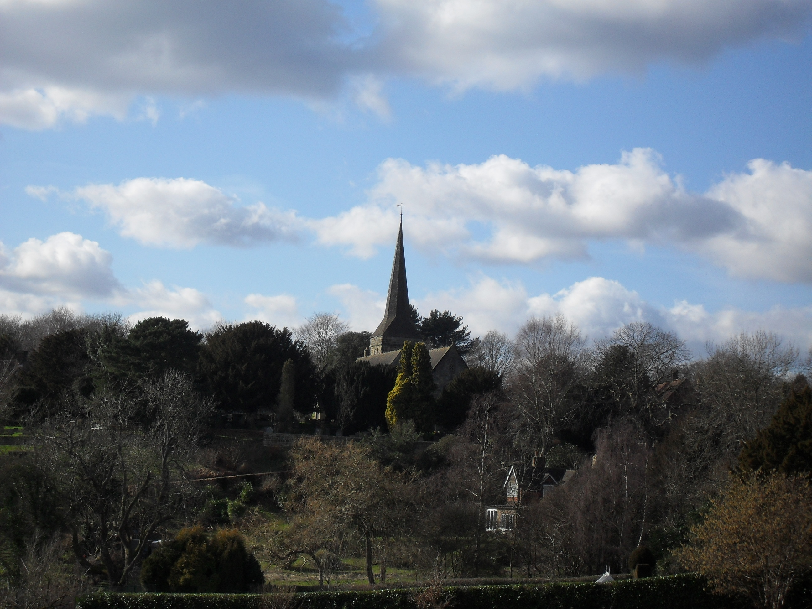 St Margaret's Church, West Hoathly, district of Mid Sussex, West Sussex, England. An Anglican church founded in the 11th century. Listed at Grade I by English Heritage (IoE Code 302844). This view looks from fields southeast of the village towards the landmark spire.